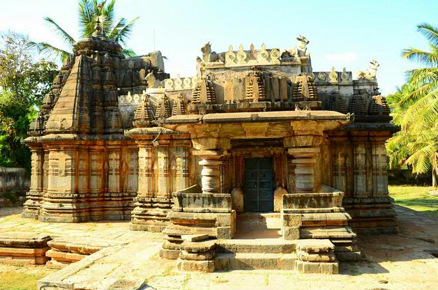 The temple which is located in Turuvekere, Tumkur district of the Karnataka state, India was built around 1260 A.D. during the rule of the Hoysala Empire King Narasimha III